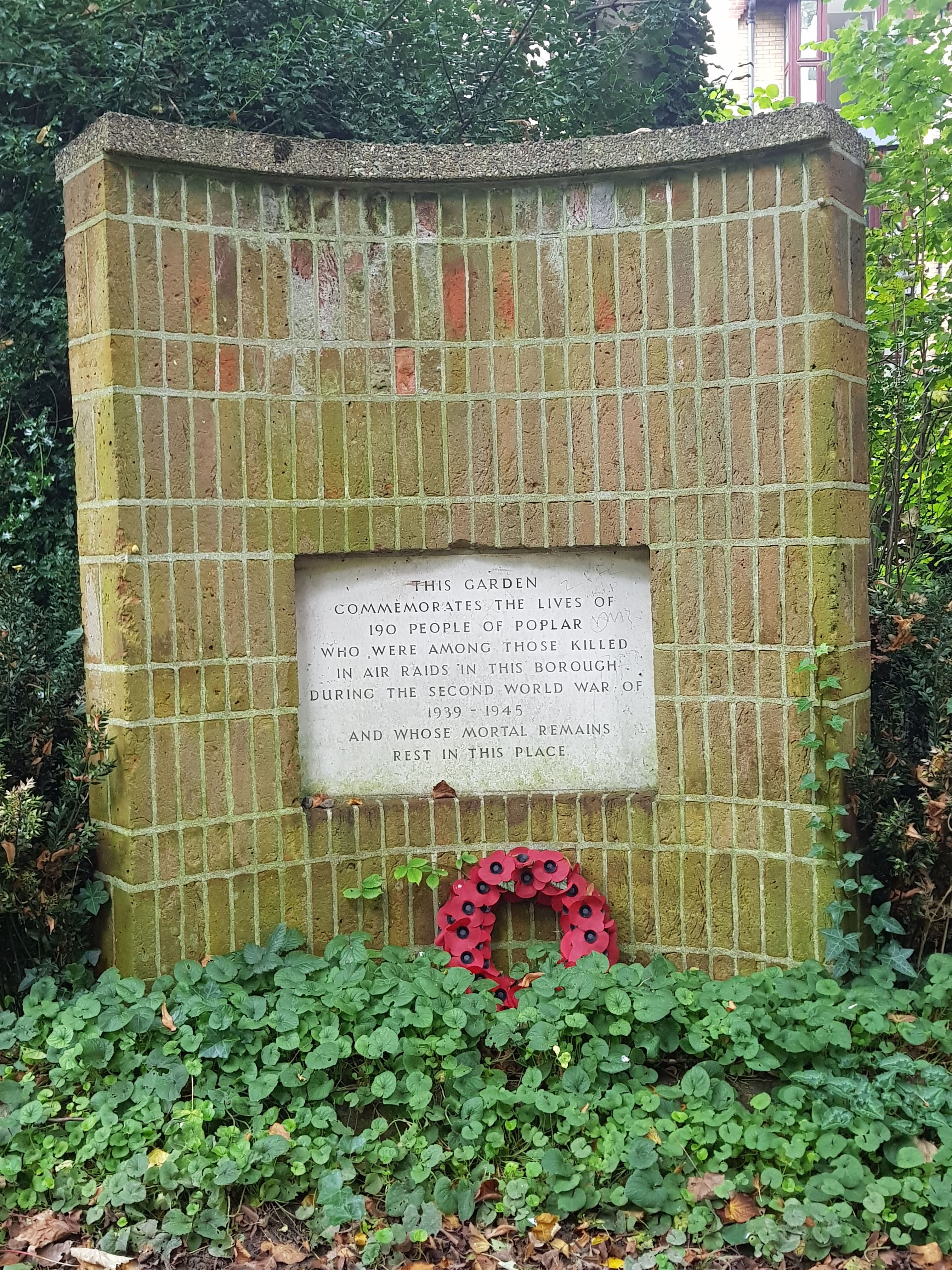 Tower Hamlets Cemetery (officially Tower Hamlets Cemetery Park), London